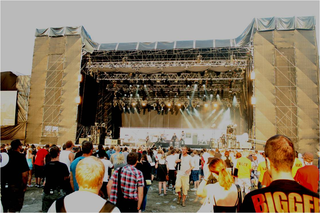 Mainstage at Quart Festival 2009, Kristiansand, Norway